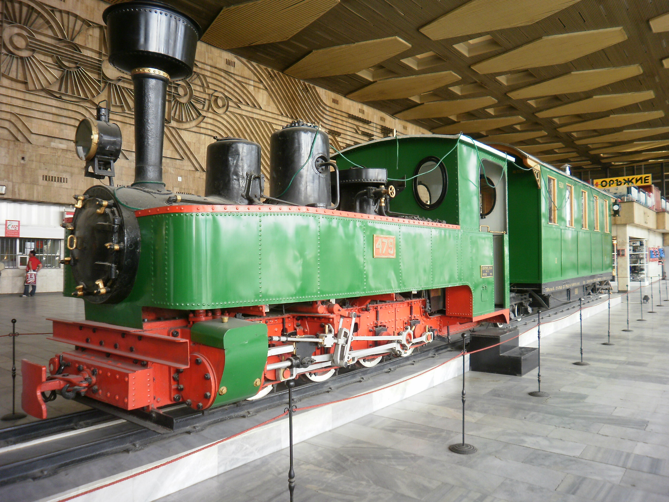 Steam locomotive - Sofia Central Railway Station